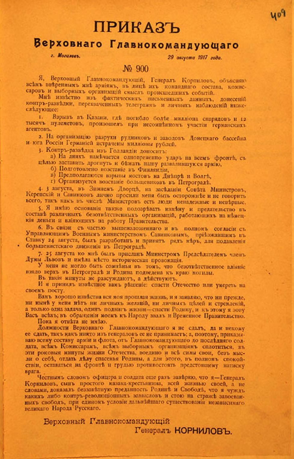 Proclamation of gen. Lavr Kornilov from 29 August 1917 s.c. ( Kornilov affair)